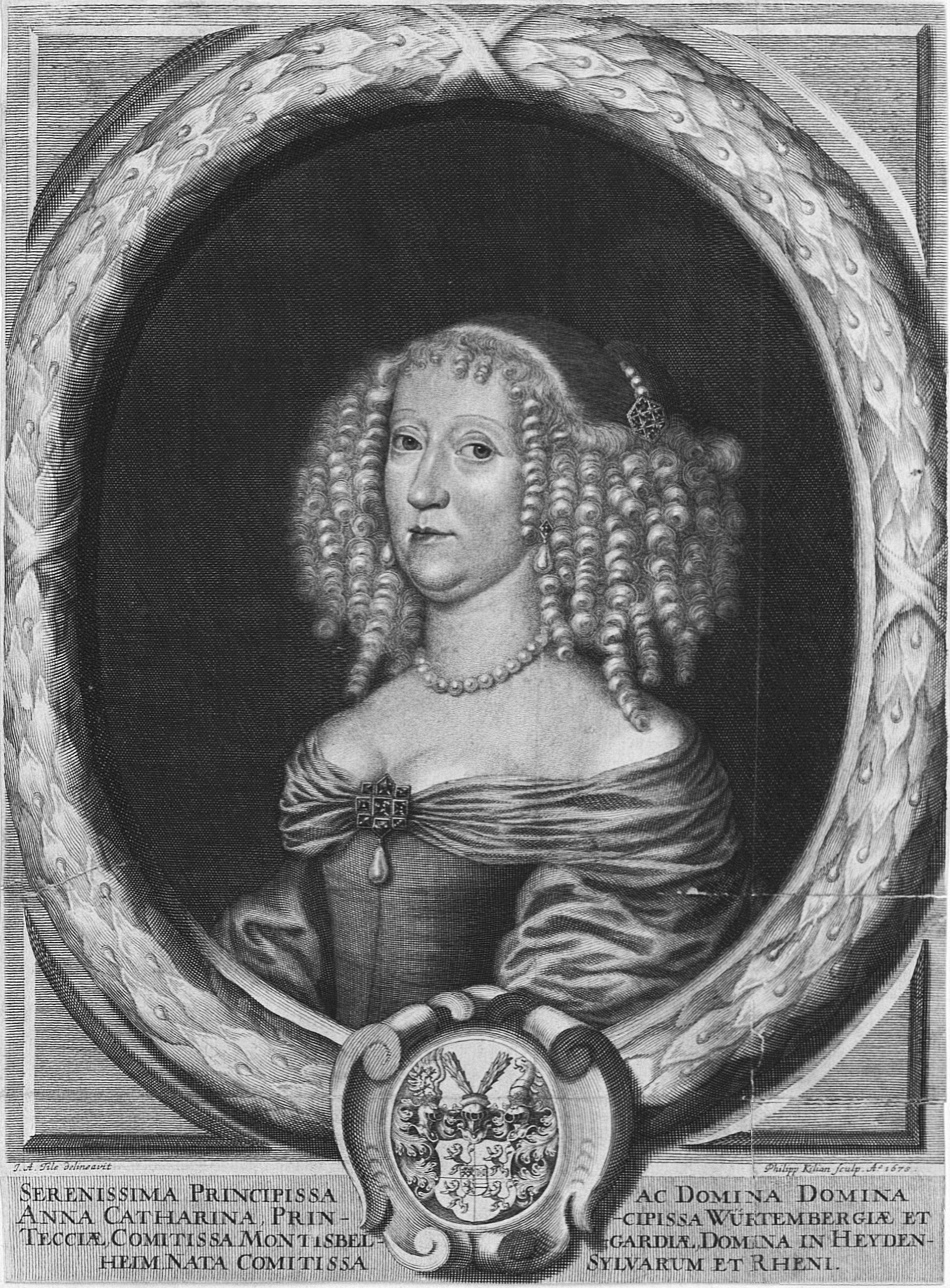 Portrait of Anna Katharina Dorothea of Salm-Kyrburg (1614-1655), wife of Eberhard III, Duke of Württemberg